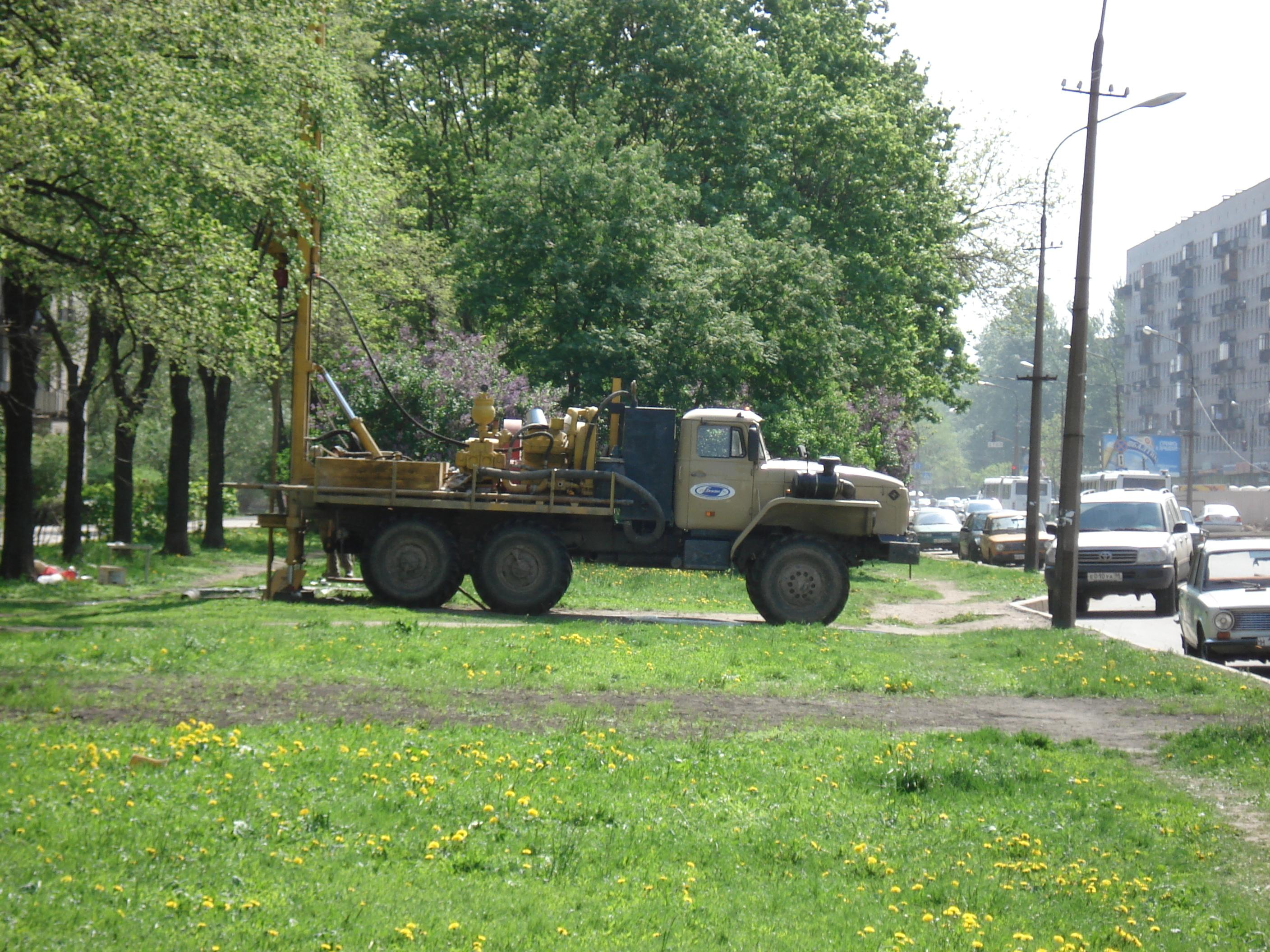 Nazemny